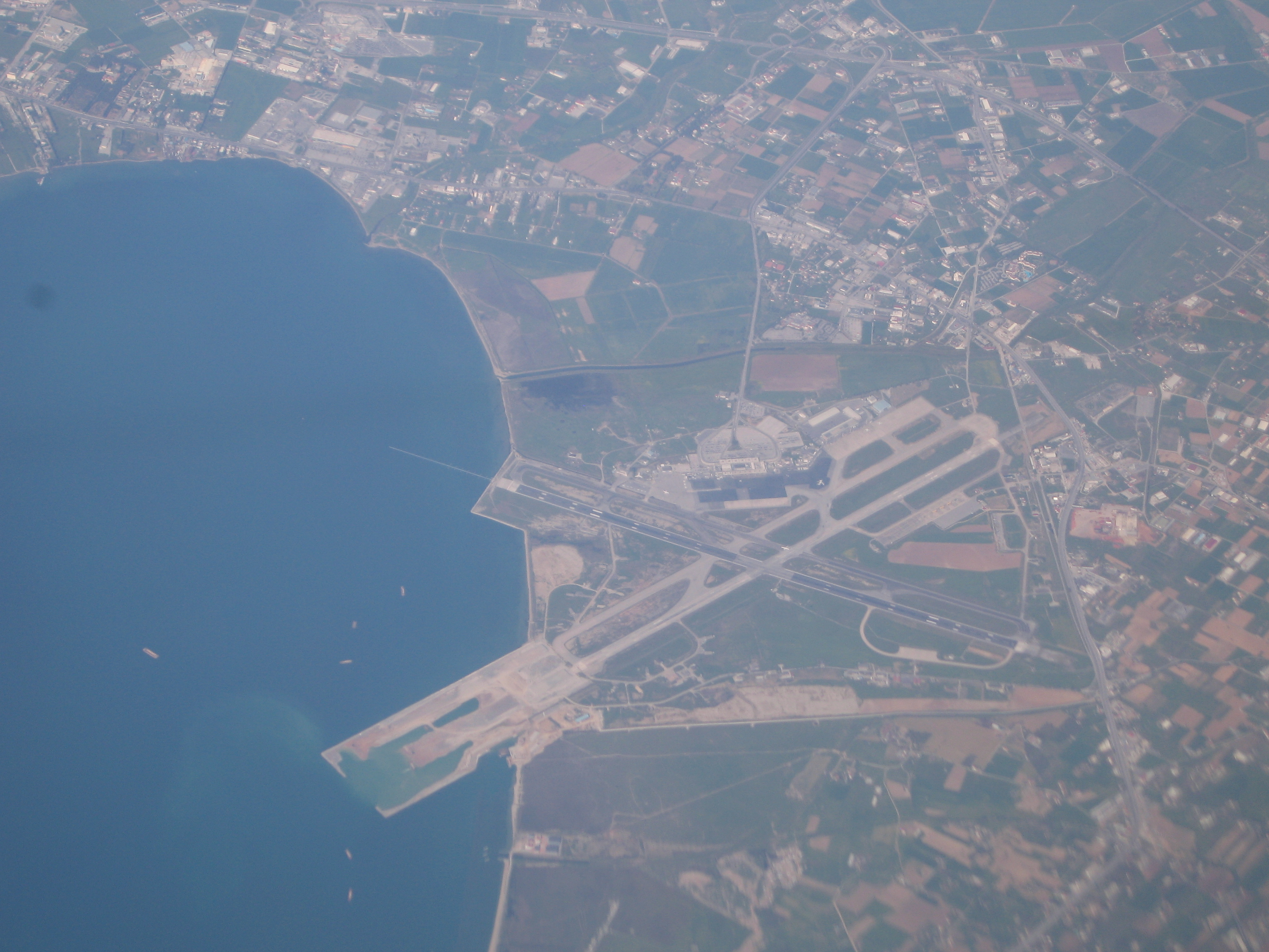 Aerial view of Thessaloniki International Airport in April 2011